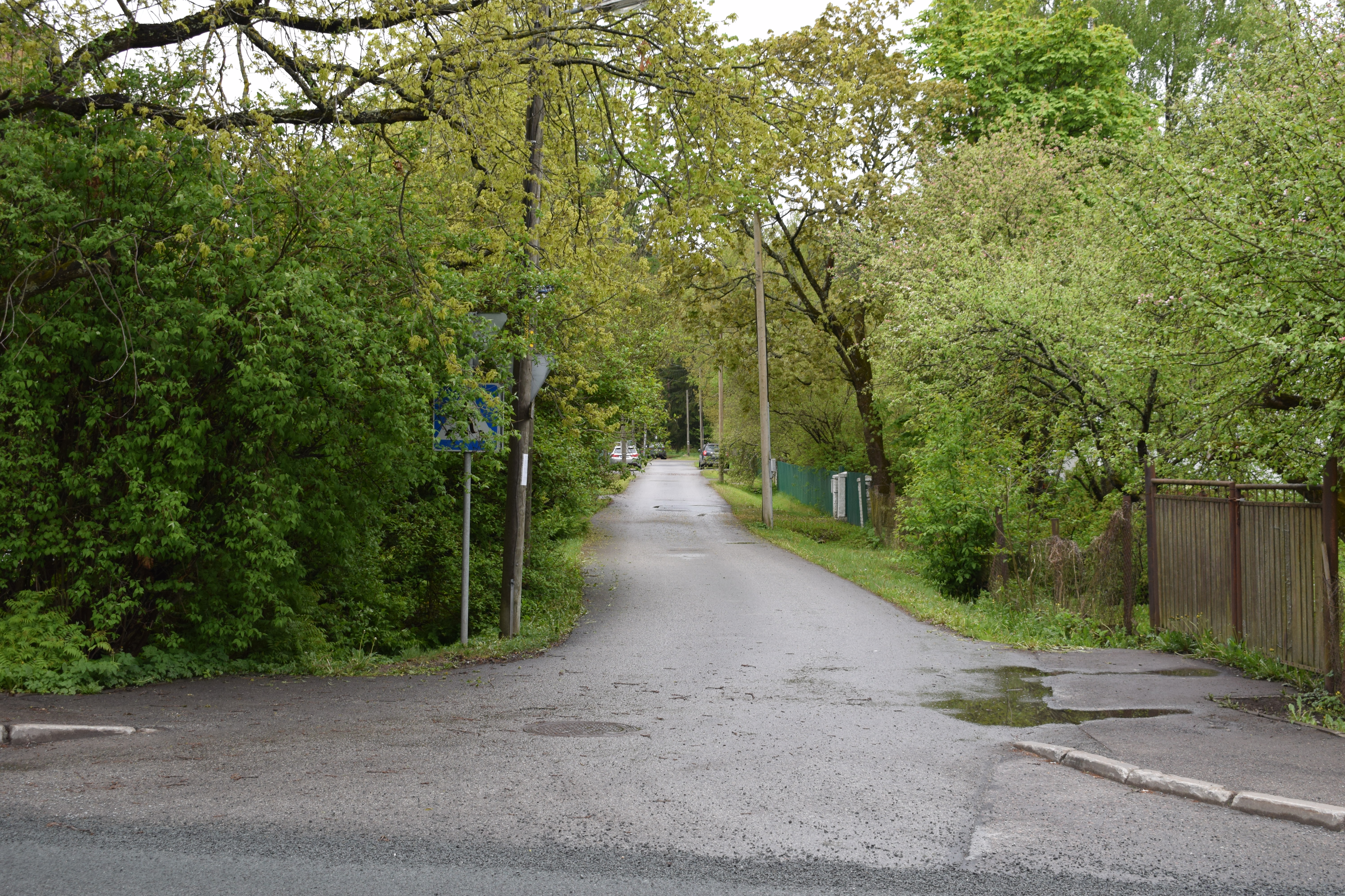 Varju road